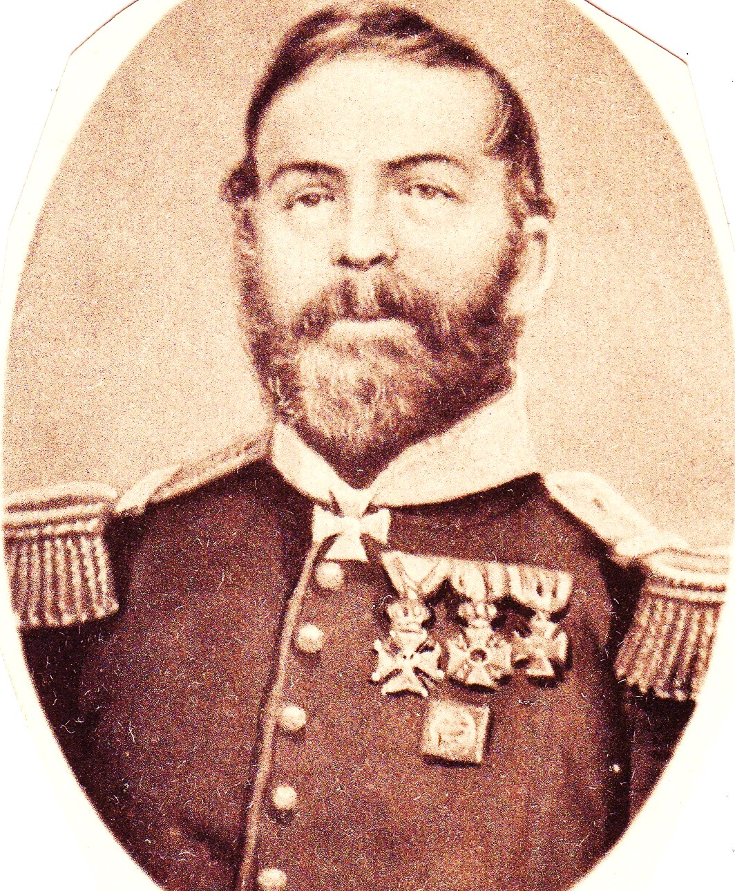 CP Winckel